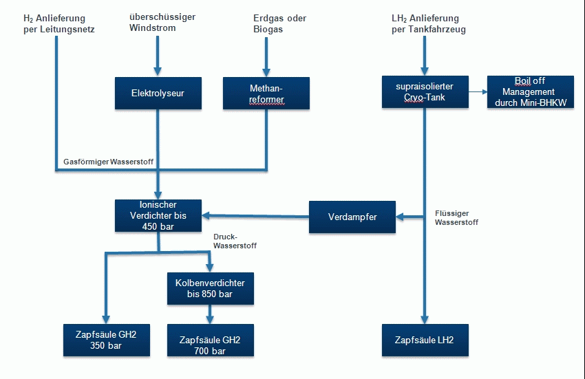 Principle of a hydrogen filling station